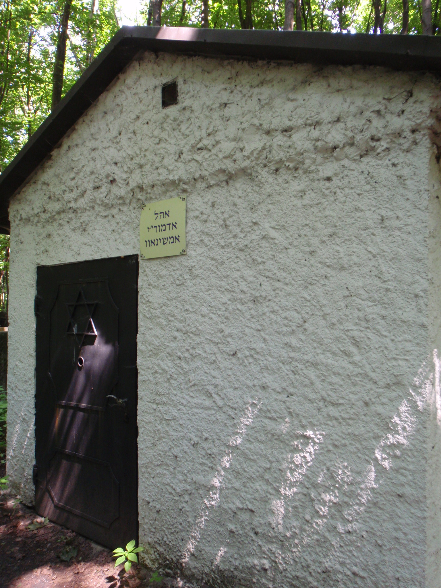 Ohel of Mszczonów tzadiks - Menachem Mendel from Mszczonów, Józef from Mszczonów, Jakub Dawid from Żyrardów